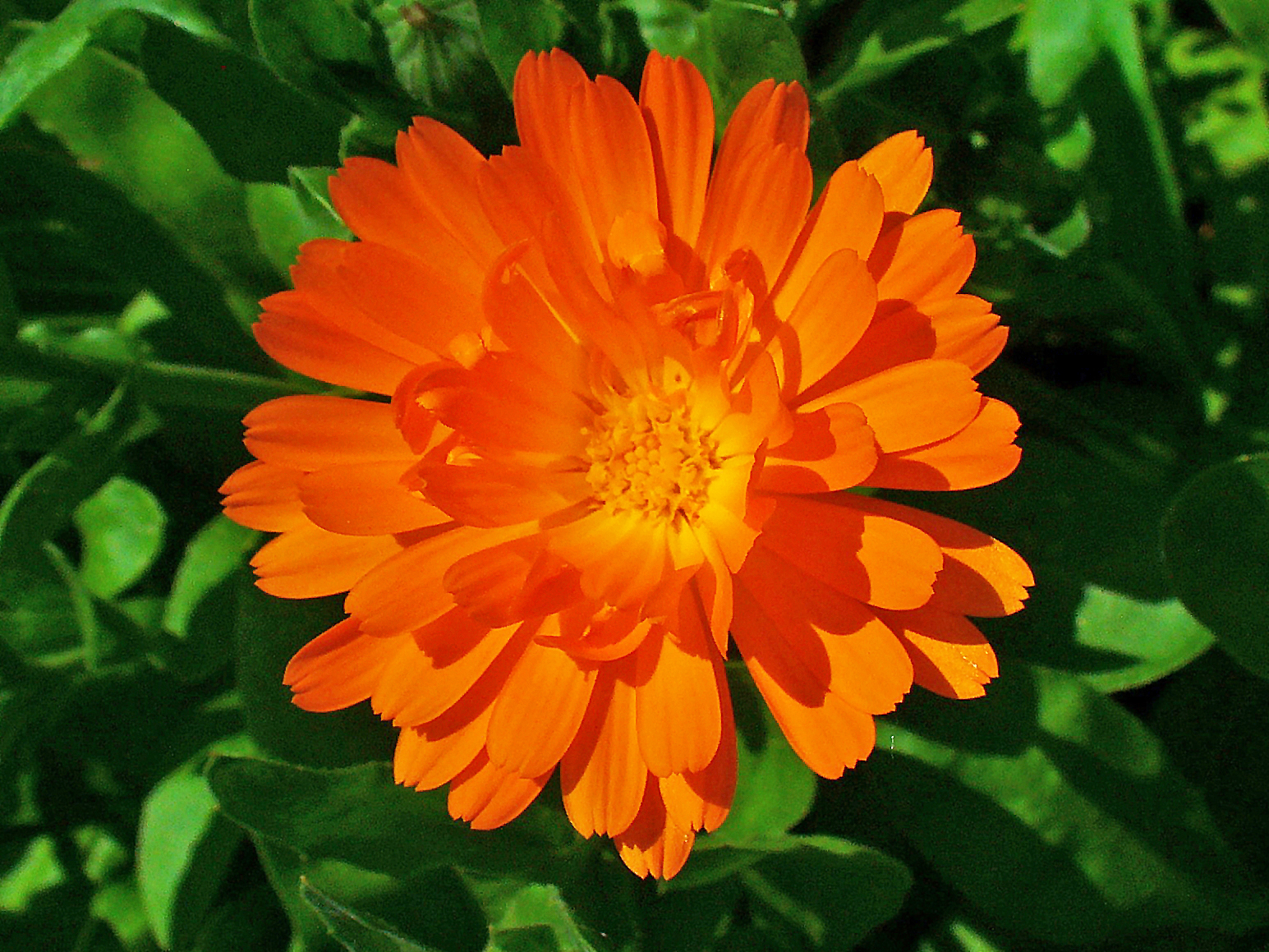 Calendula officinalis, Asteraceae, Pot Marigold, inflorescence. The fresh aerial parts of the blooming plants are used in homeopathy as remedy: Calendula (Calen.)